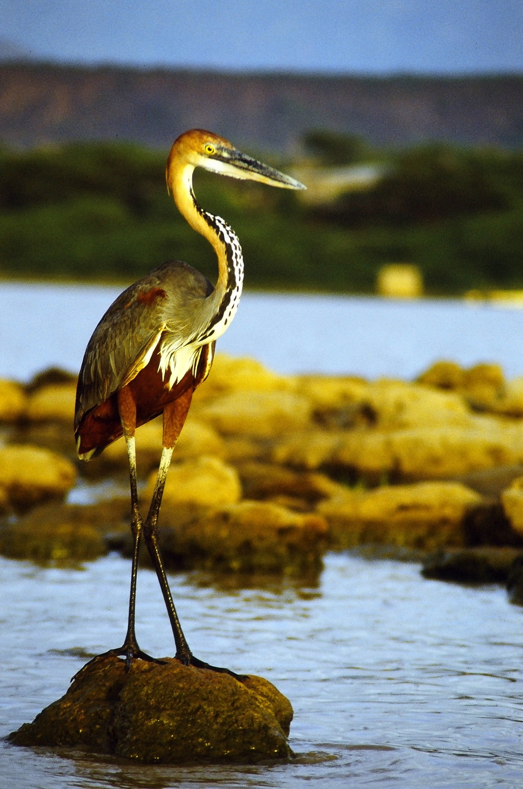 A Goliath heron (Ardea goliath) standing by Lake Baringo, Kenya